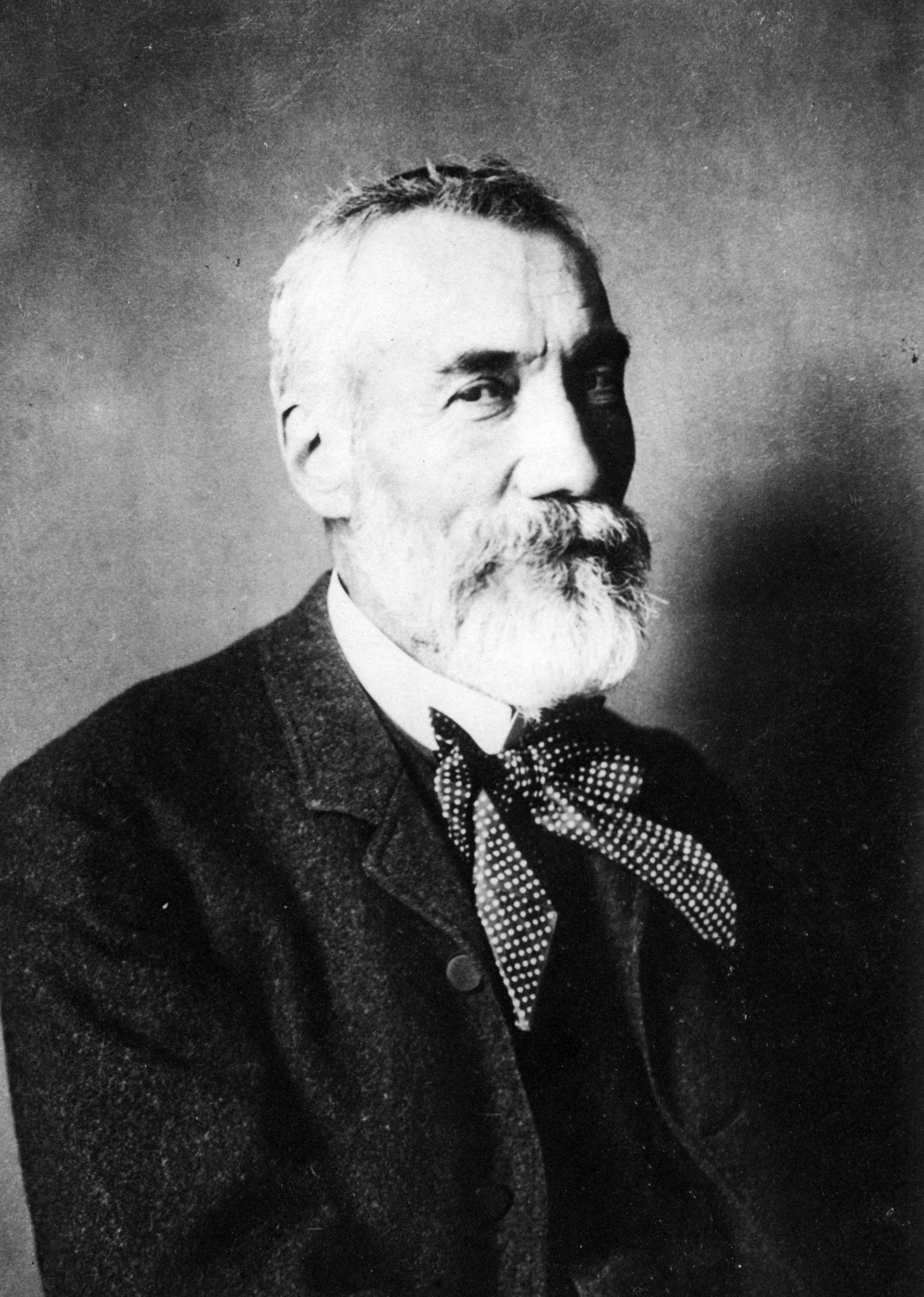 Lorédan Larchey, lexicographer and librarian at the Bibliothèque Mazarine and the Bibliothèque de l'Arsenal